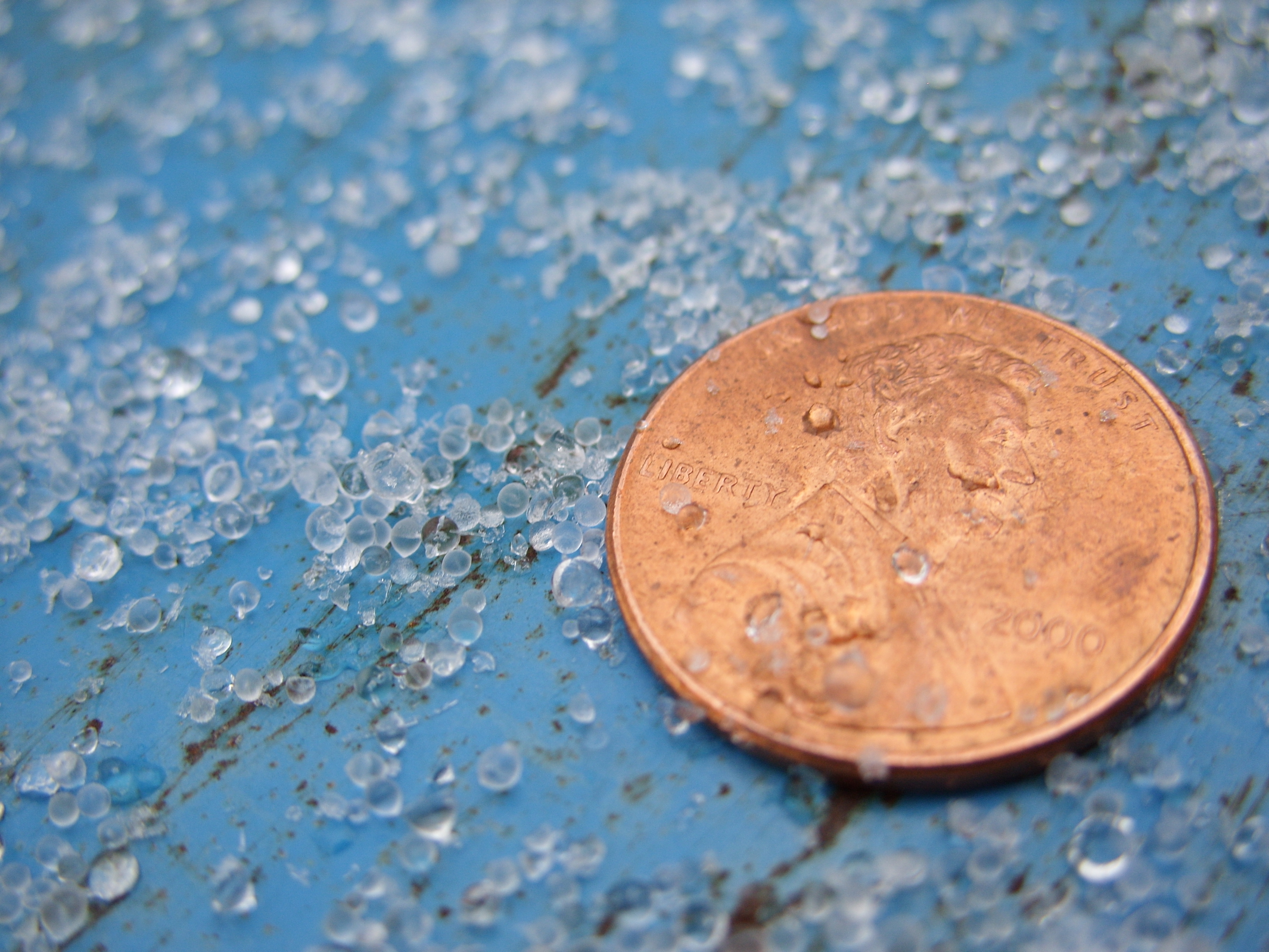 Image of ice pellets, known as sleet in North America, with a United States cent for scale.